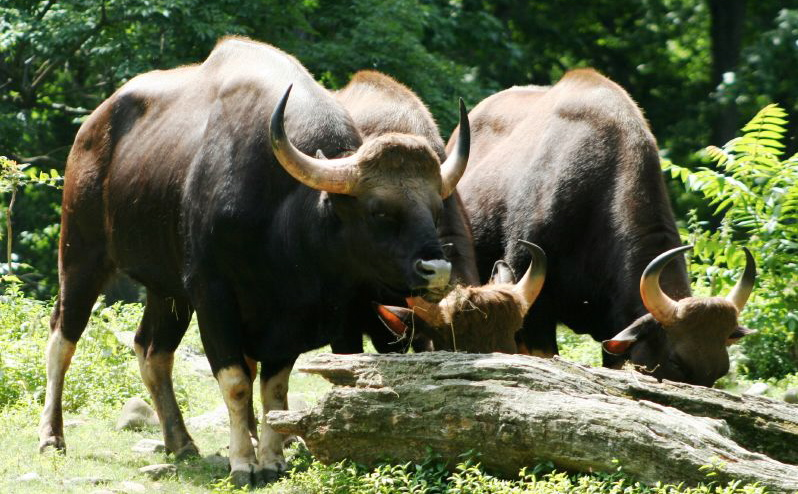 A small herd of Gaur at the Bronx zoo. [Cropped from original]